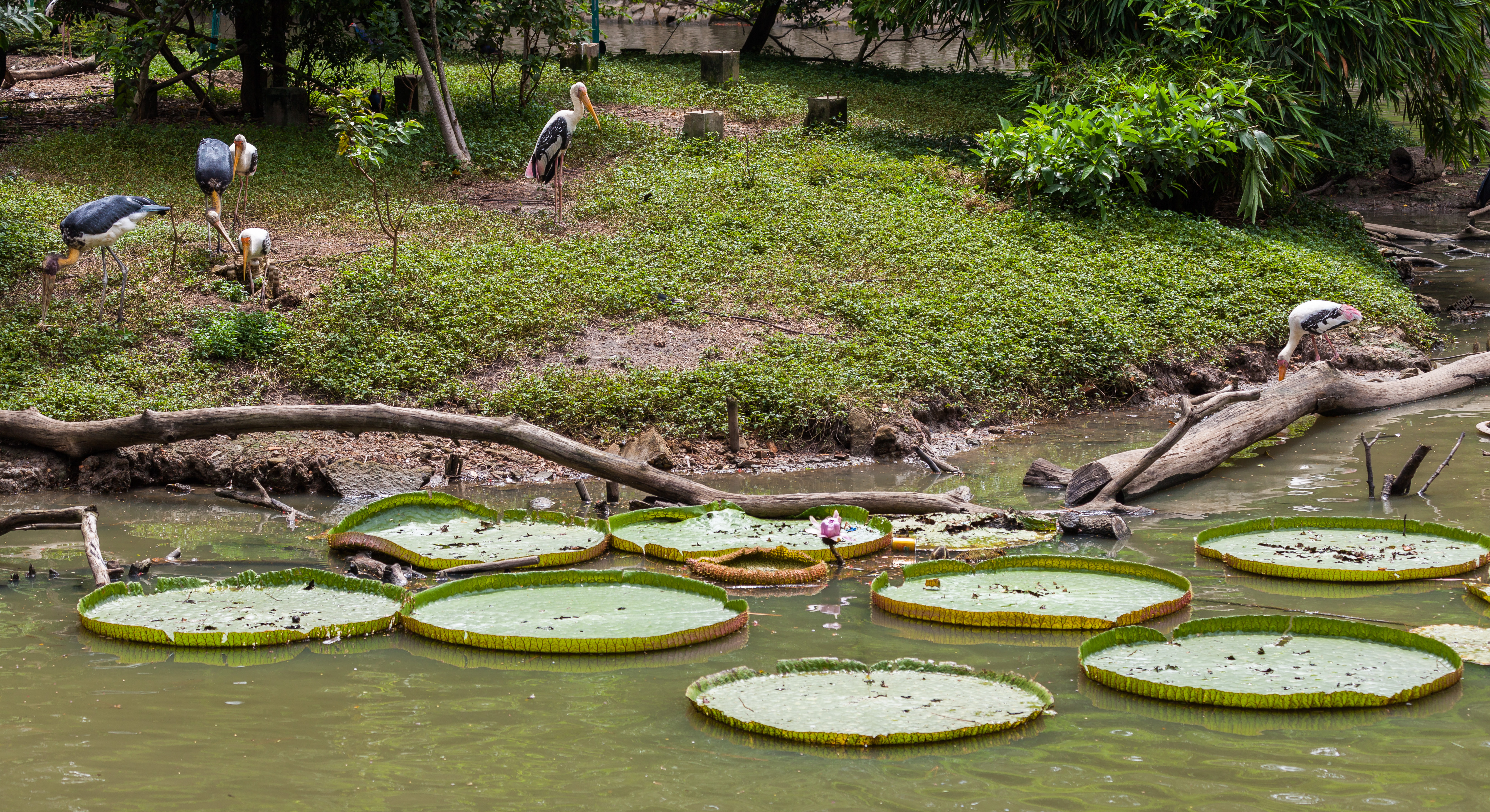 Water lily (Victoria amazonica), Ho Chi Minh City Zoo, Vietnam